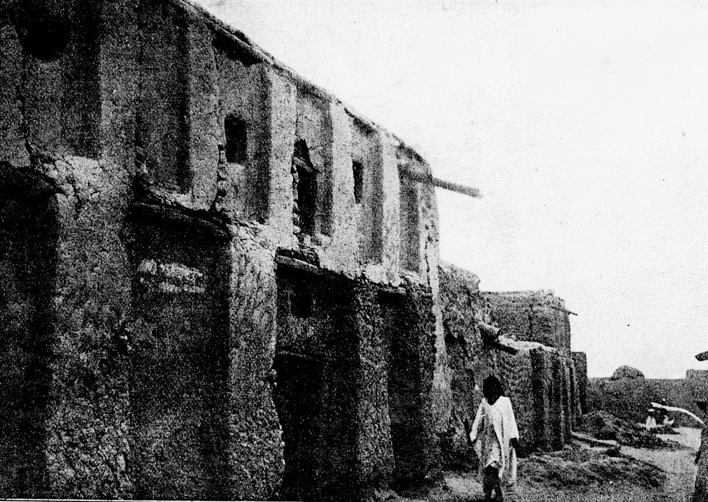 Heinrich Barth's house in Timbuktu (in summer 1908 before its collapse) (caption from Heinrich Barth on wp)